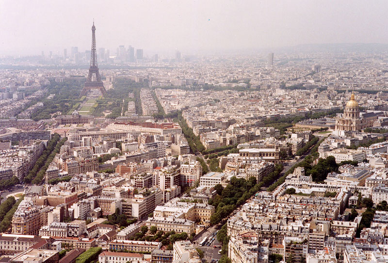 View of Tour Eiffel from Tour Montparnasse